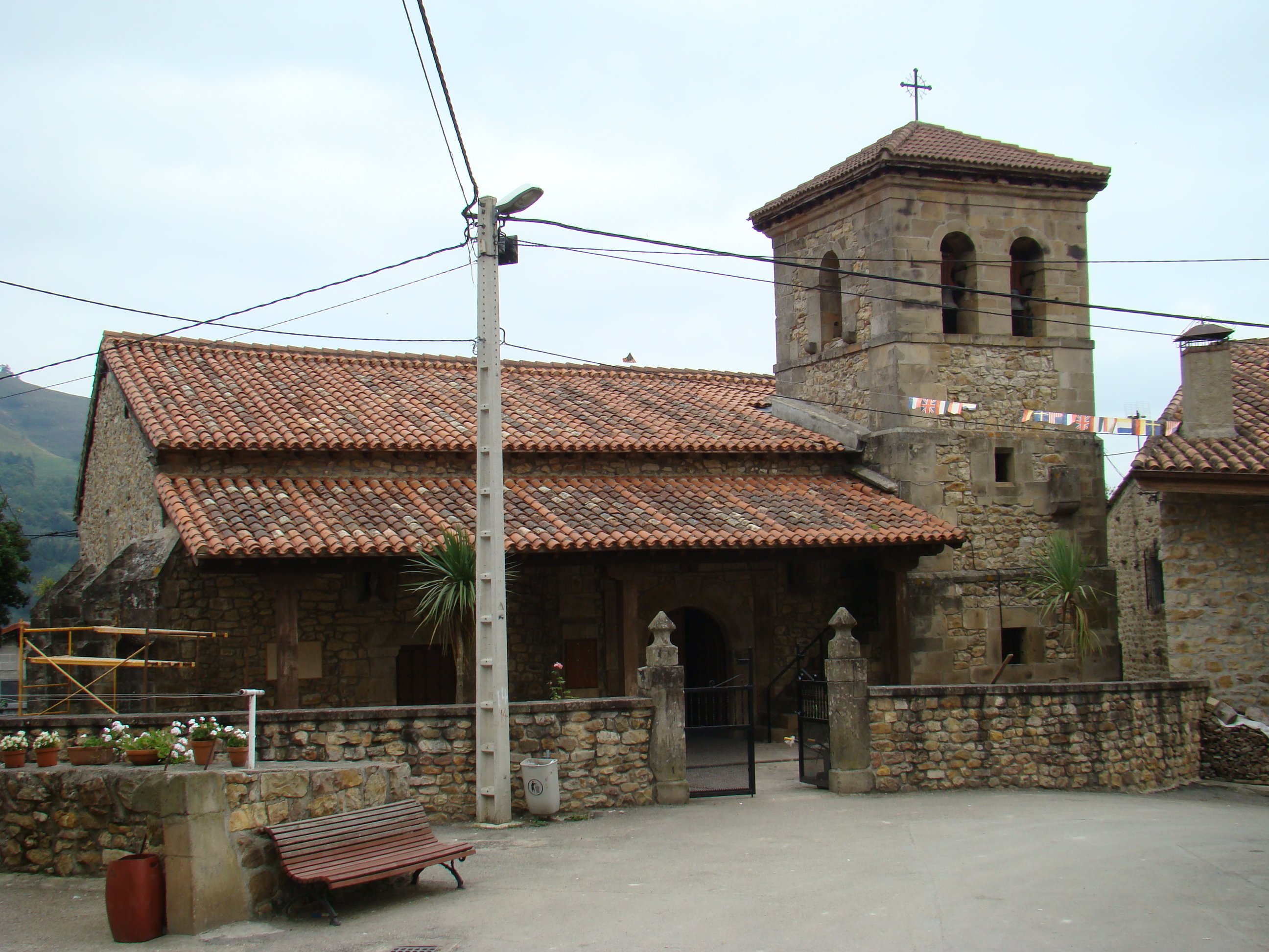 View of the parochial church in San Sebastián de Garabandal, Cantabria (Spain)